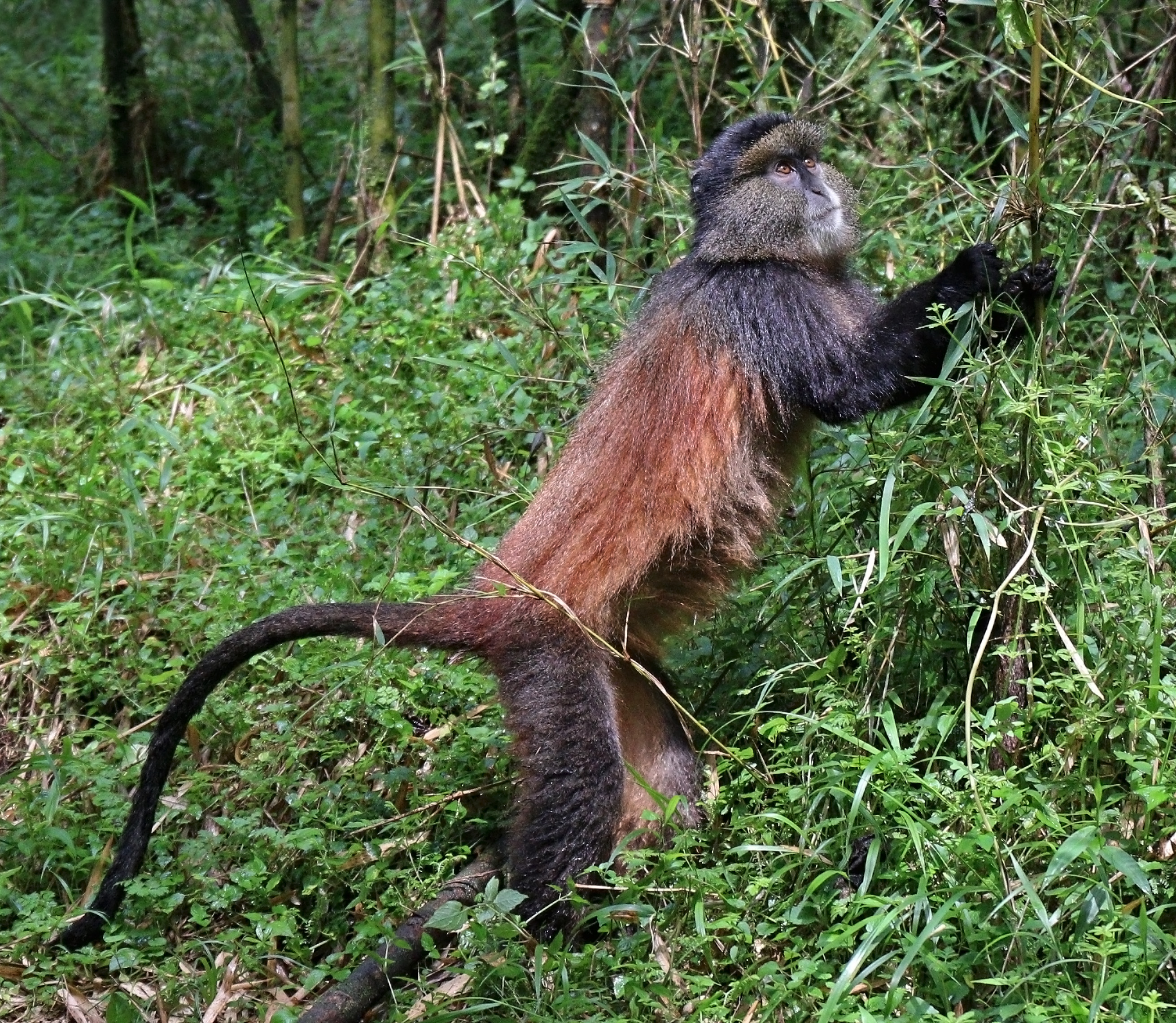 Golden monkey (Cercopithecus kandti) foraging, Volcanoes National Park, Rwanda